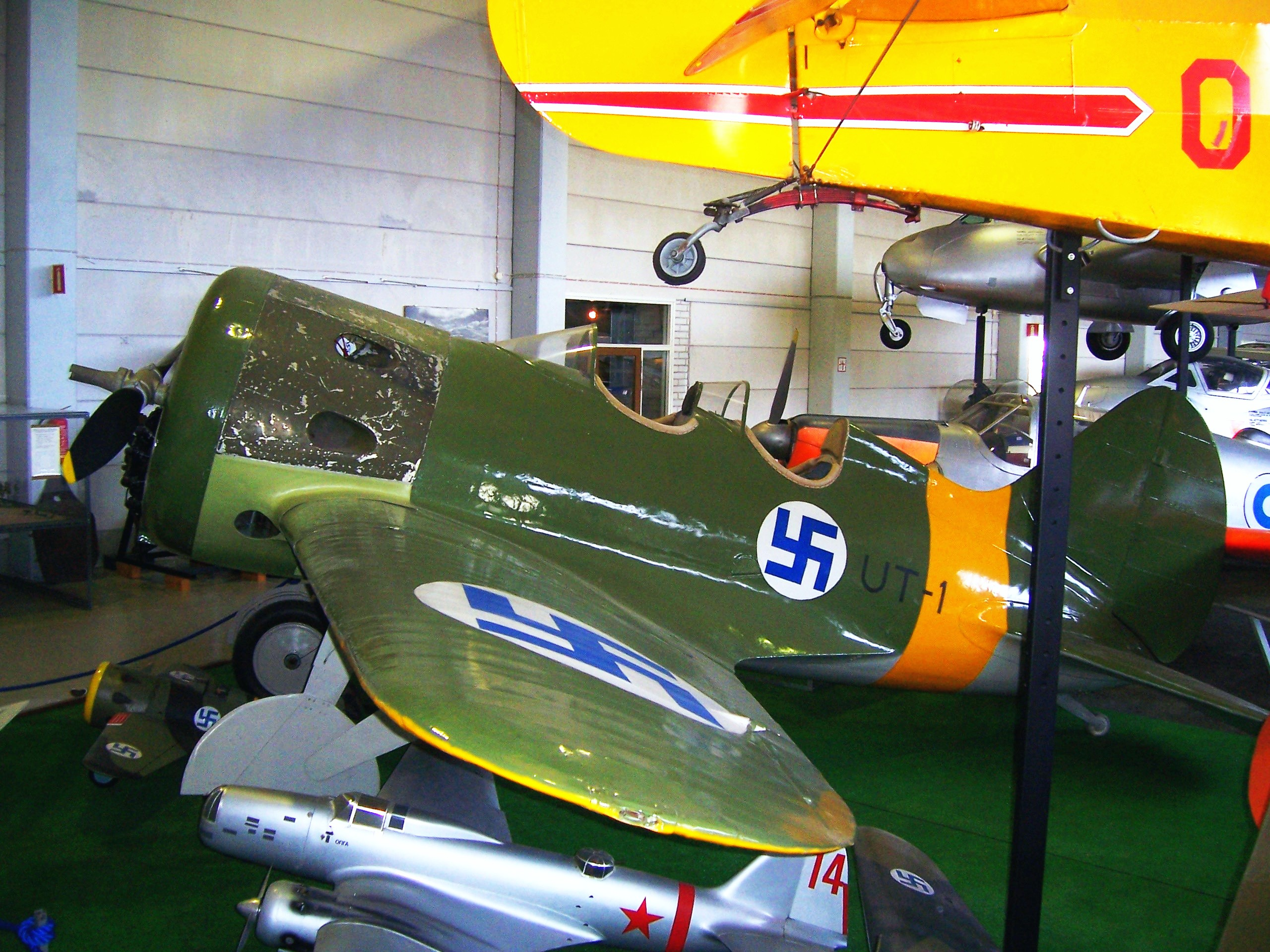 Finnish Aviation Museum Polikarpov UTI-4